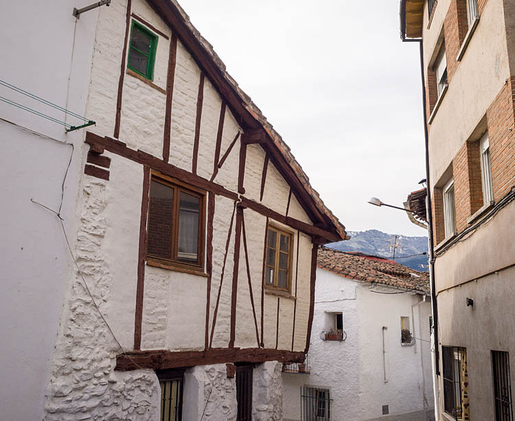 Arquitectura popular.